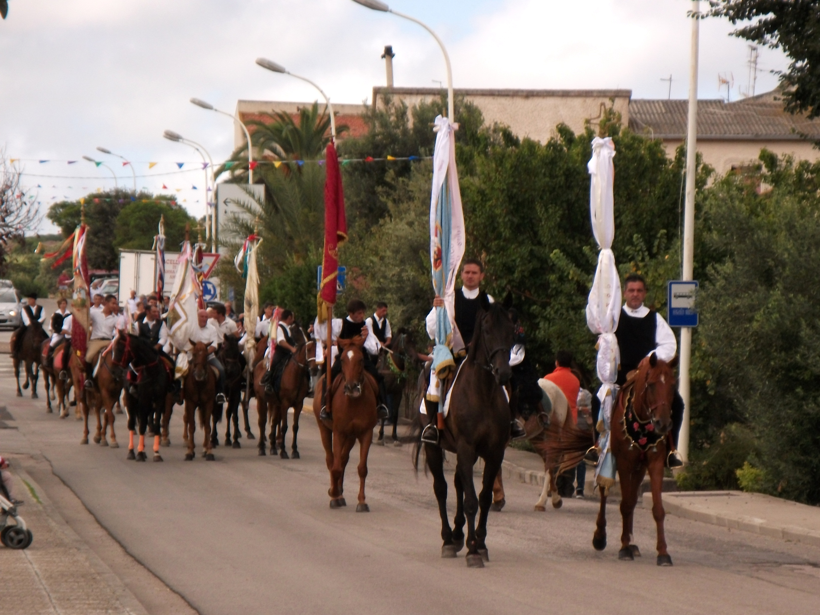 Holiday in Tergu